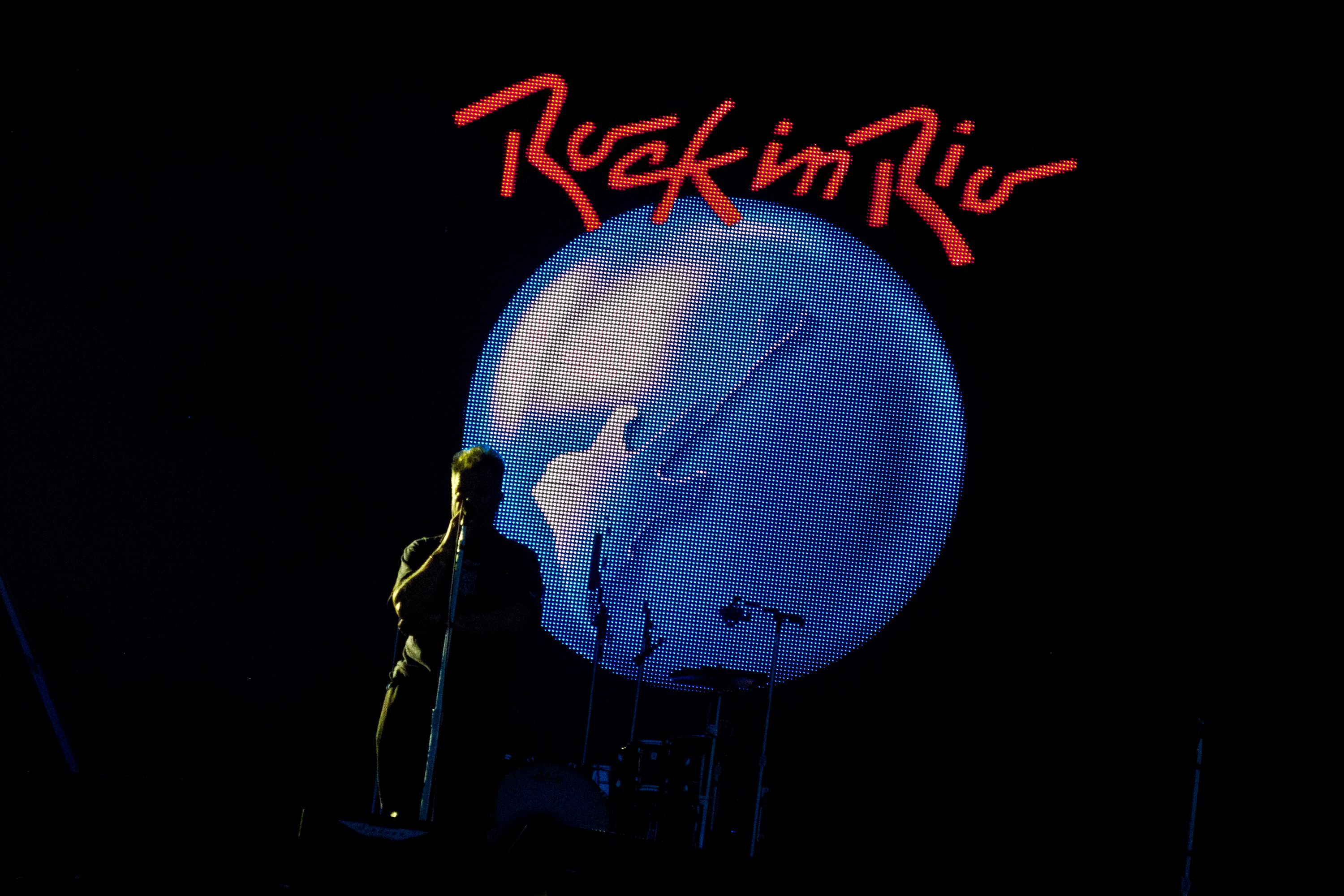 Image of Rock in Rio before a concert (Madrid, 2012).